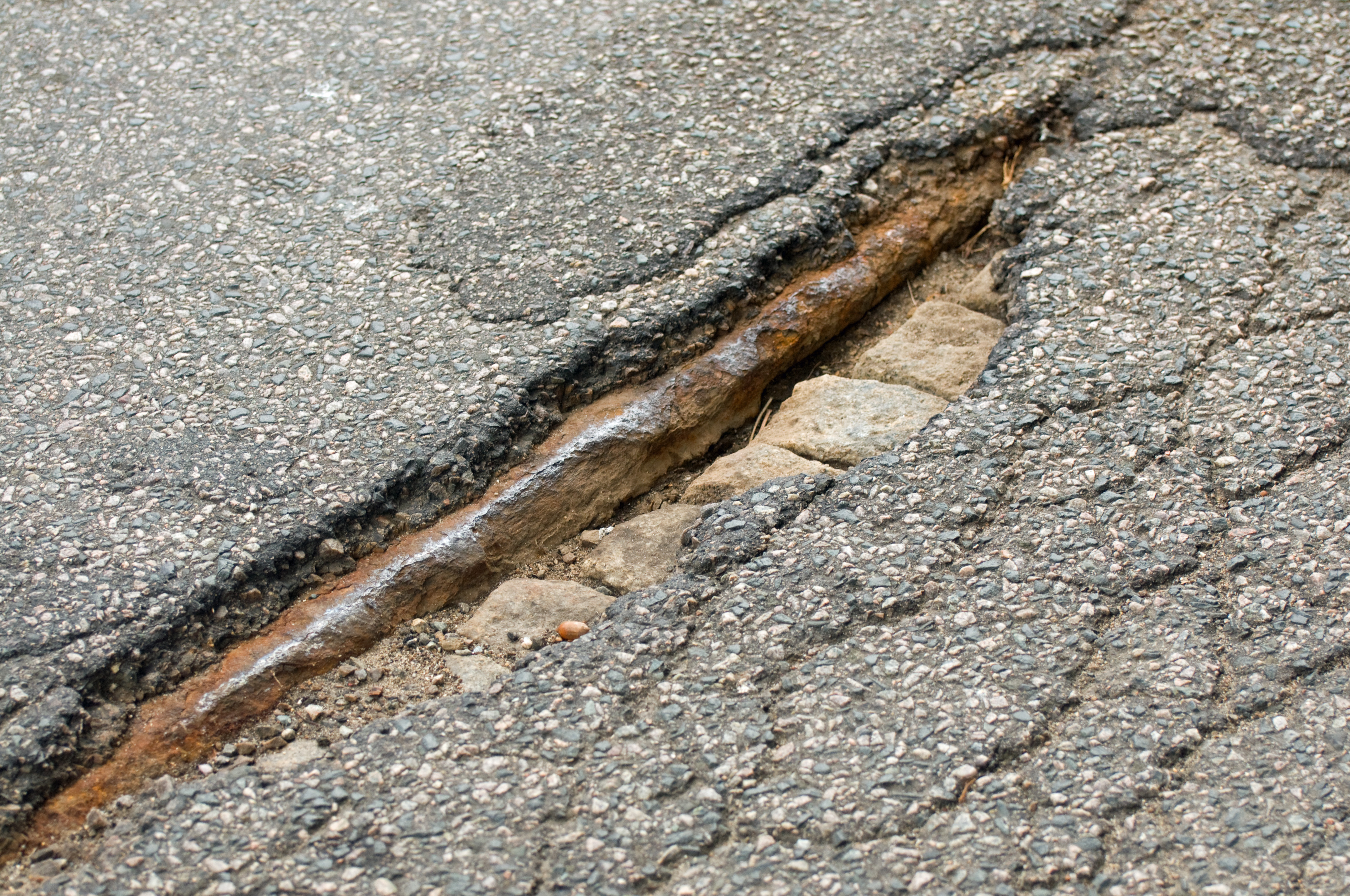 An abandoned piece of trolley rail in Main Street in Somerville, Massachusetts. This rail was last used by the 101 Salem Street - Sullivan Square Station route, which was replaced by buses on April 19, 1947.